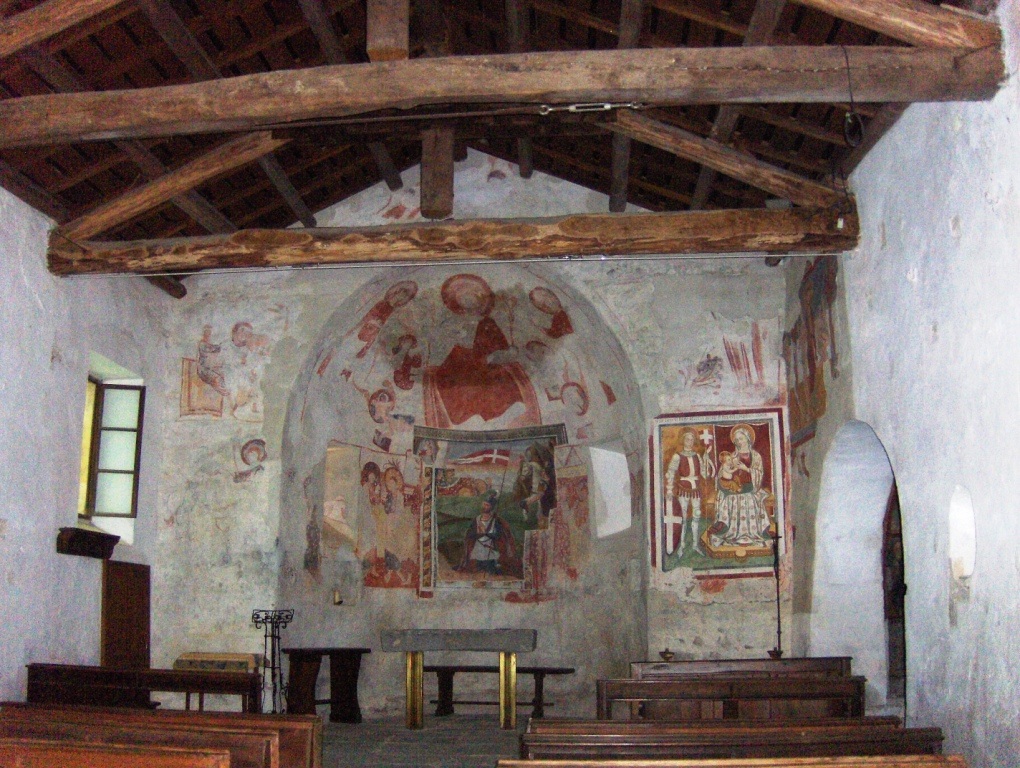 general wiew of the apse